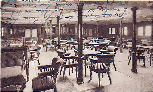 2nd Class Smoking Room